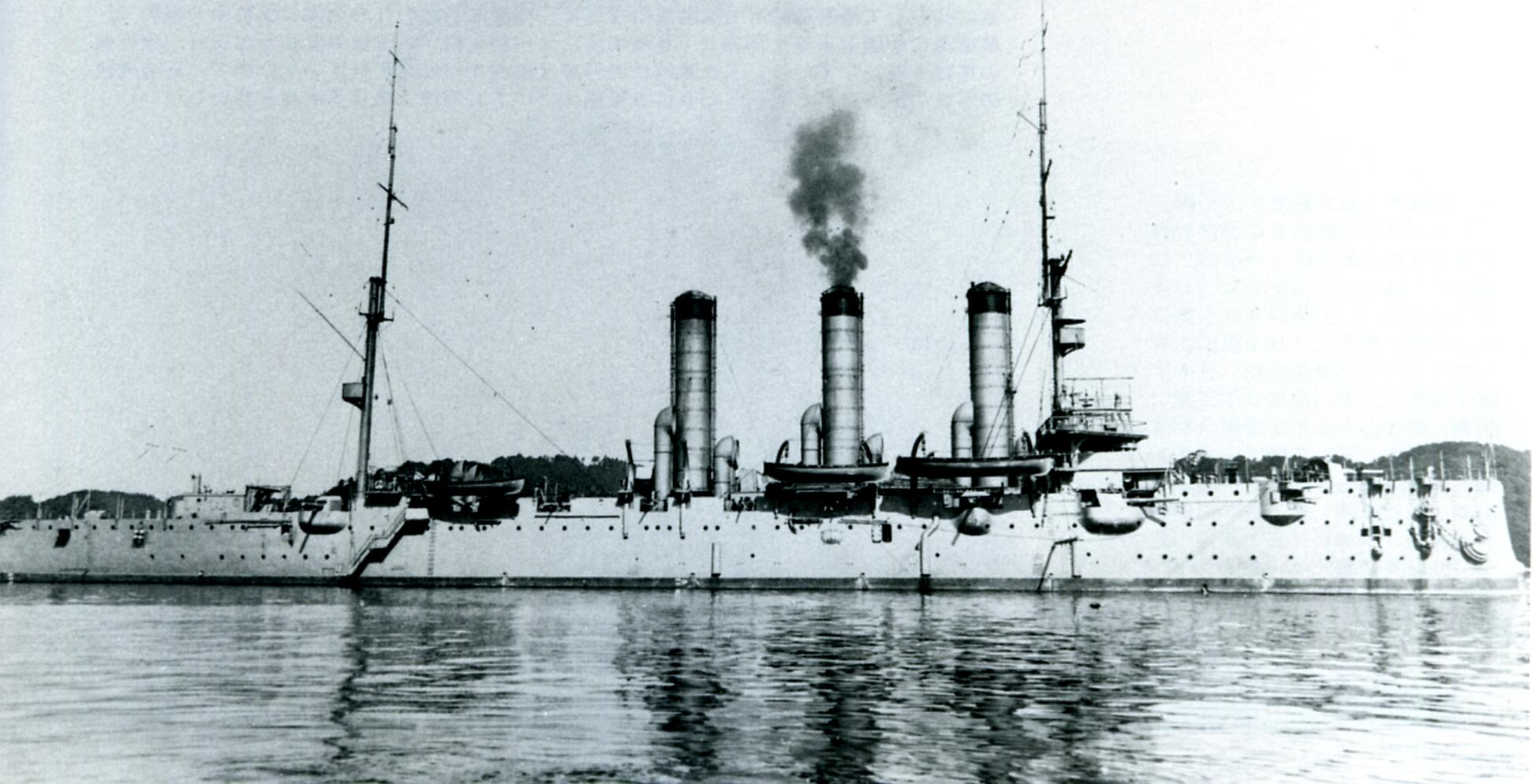 Japanese cruiser Tsugaru in 1918, after reconfiguration into minelayer